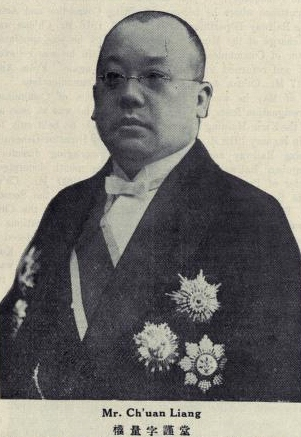 Quan Liang, Jintang (born 1875)